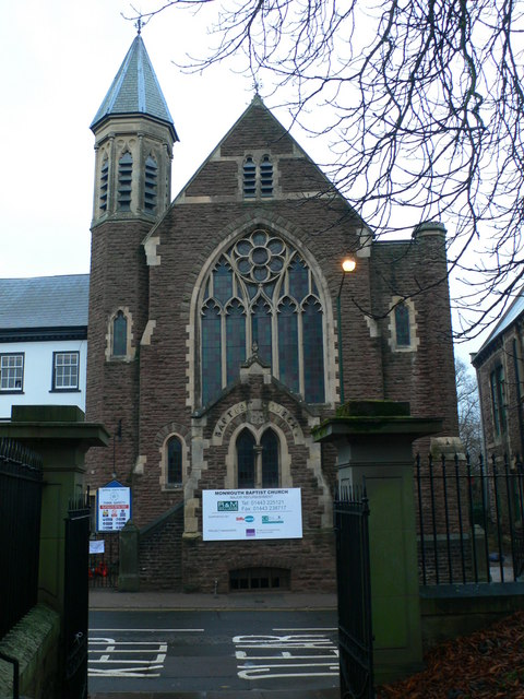 Baptist Church, Monmouth Built in 1906 opposite St Mary's Church, on Monk Street, the church is now being renovated.